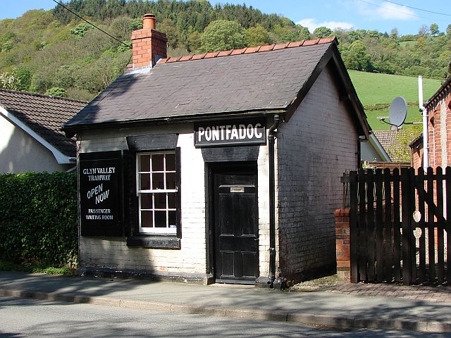 GVT waiting room at Pontfadog, near to Pontfadog, Wrexham/Wrecsam, Wales. This is the Glyn Valley Tramway waiting room at Pontfadog, beautifully restored by the Glyn Valley Tramway Group. The tramway closed in 1935, but there are 2 societies planning to restore parts of the route.